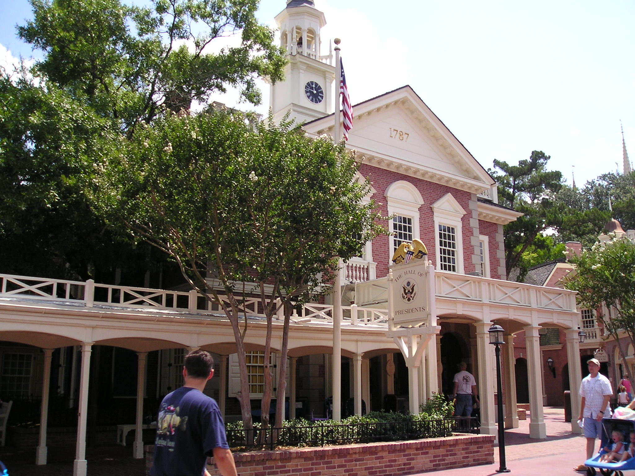 The exterior of the Hall of Presidents ride of the Magic Kingdom